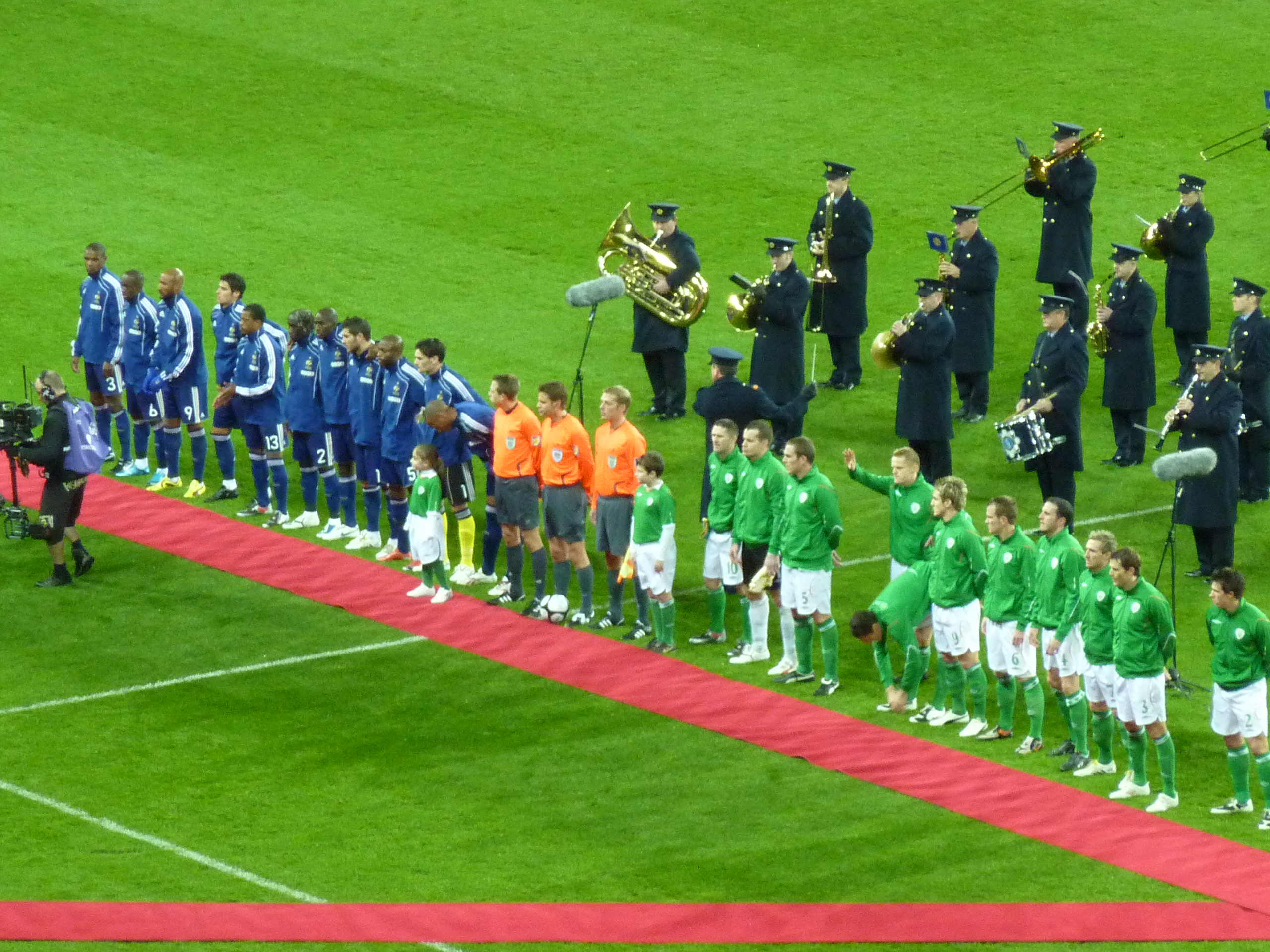 The team lineups of the Republic of Ireland and France before the first leg of their 2010 FIFA World Cup play-off tie.